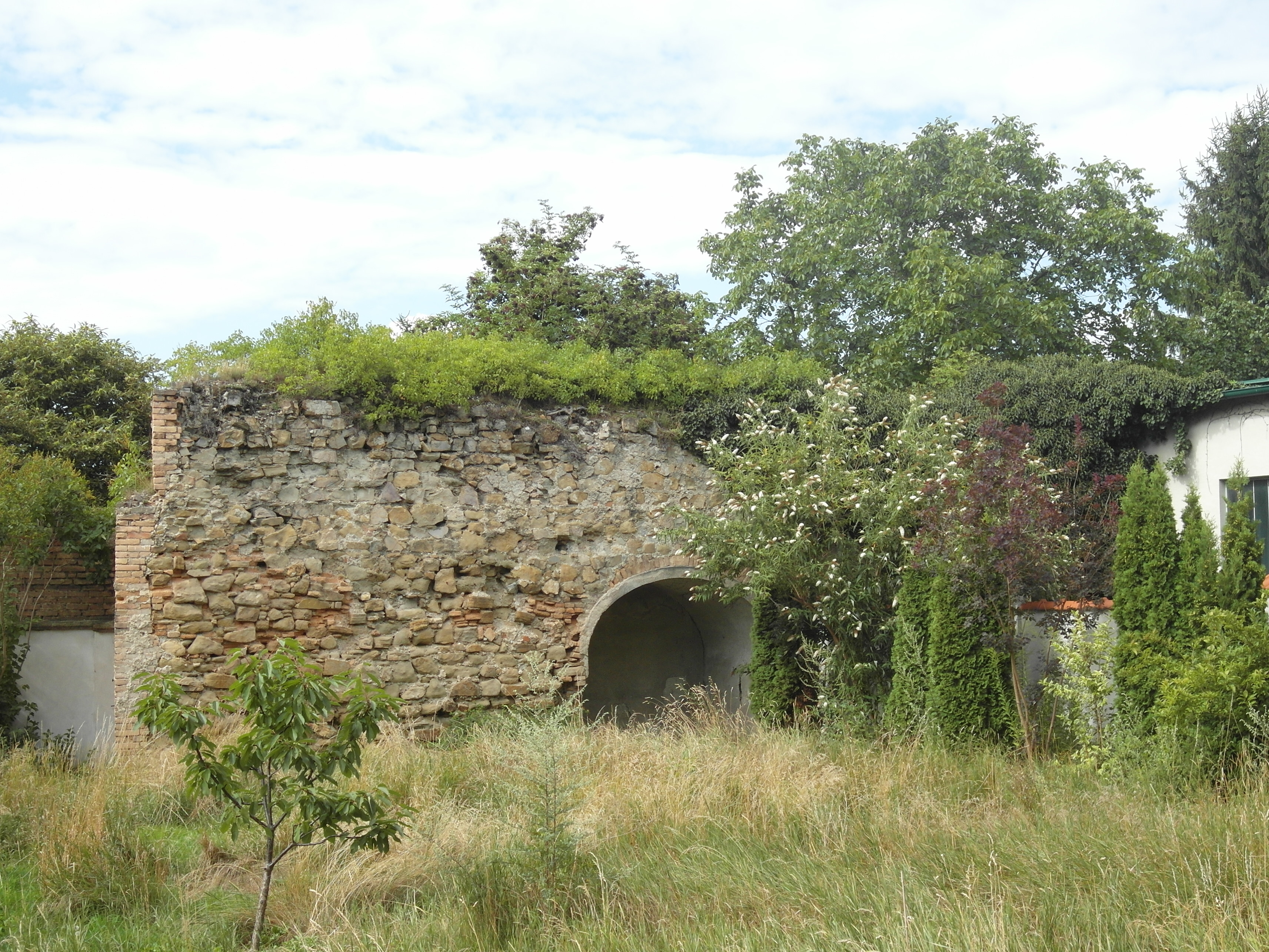 Stadtmauerabschnitt in Korneuburg, Dr. Max Burckhard-Ring 2